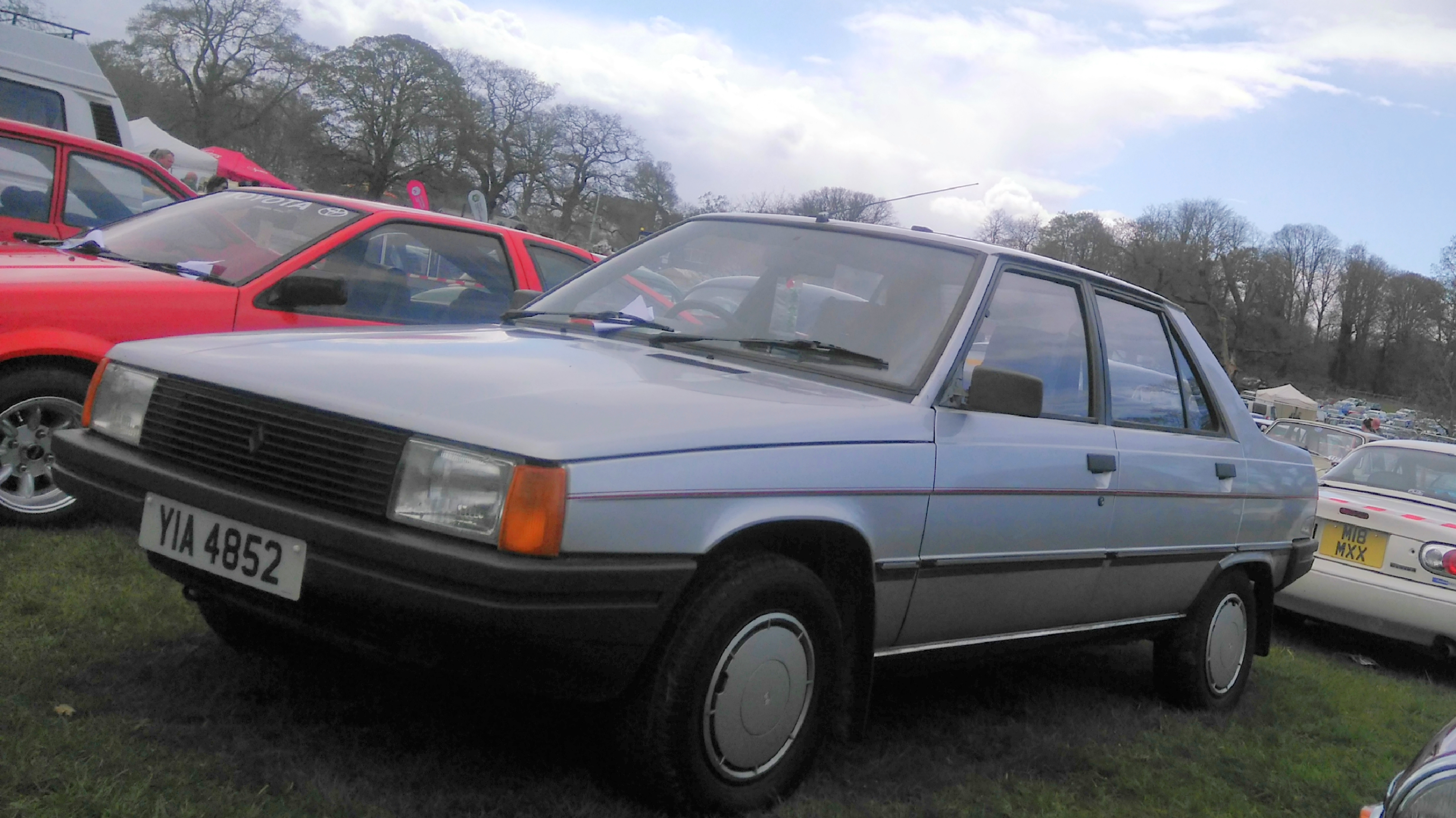 4dr Saloon Antrim Registered